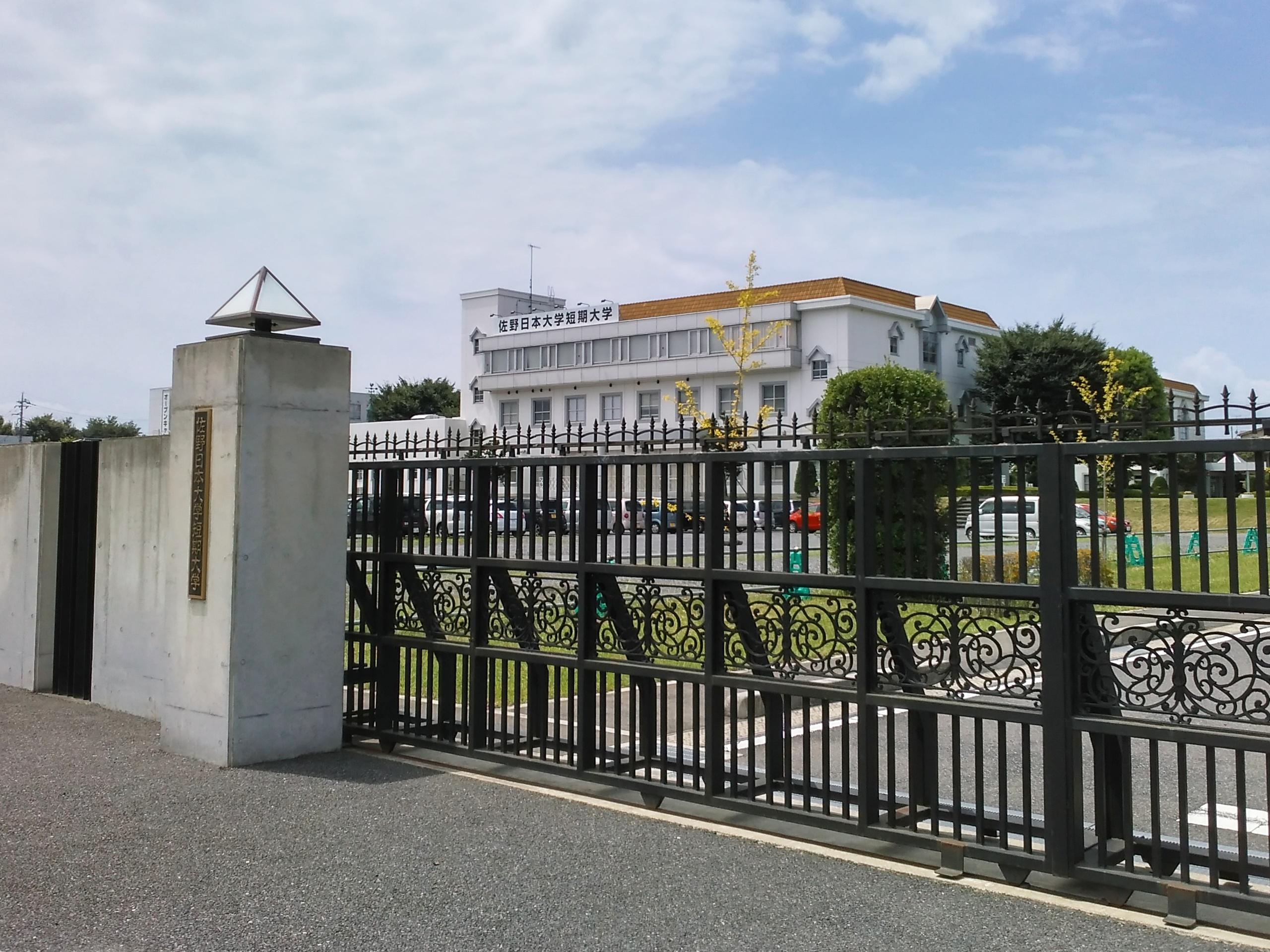 Main entrance to Sano Nihon University College (formerly Sano College) in Sano, Tochigi, Japan.